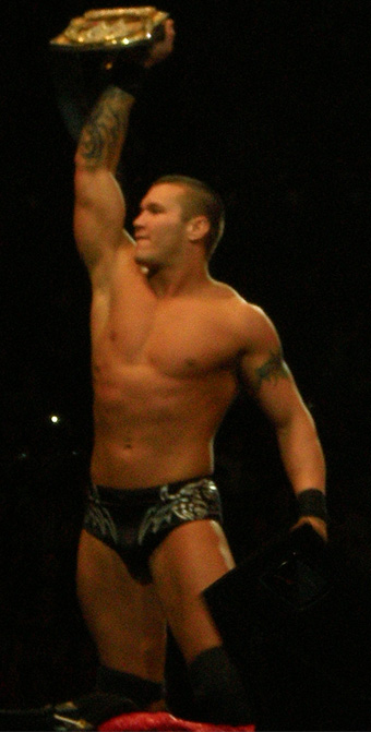 Randy Orton @ Sydney, Australia 'RAW' house show on the 9th of November '07